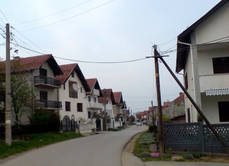 Jabukovac East